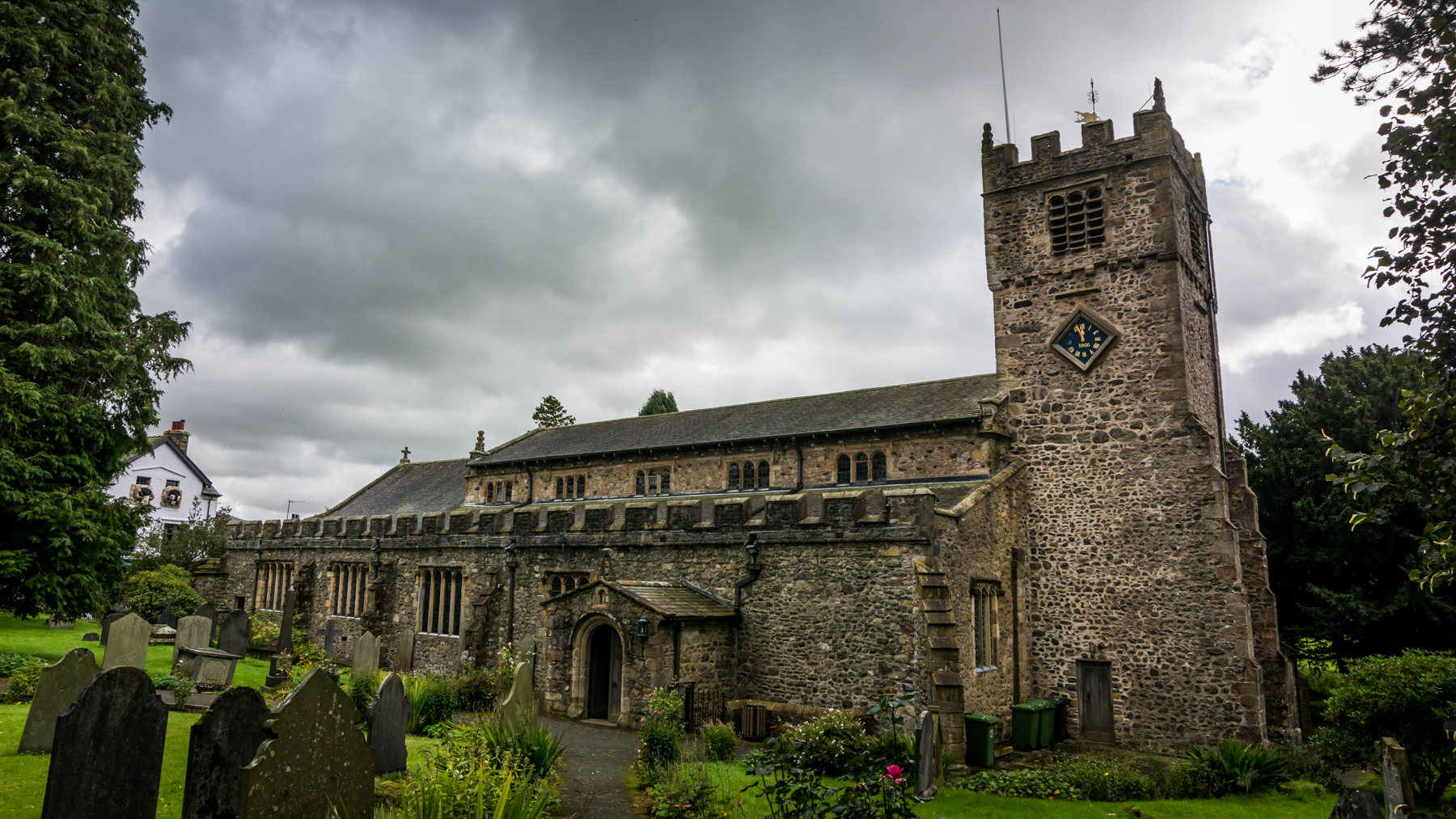 Photograph of St Andrew's Church, Sedbergh, Cumbria, england